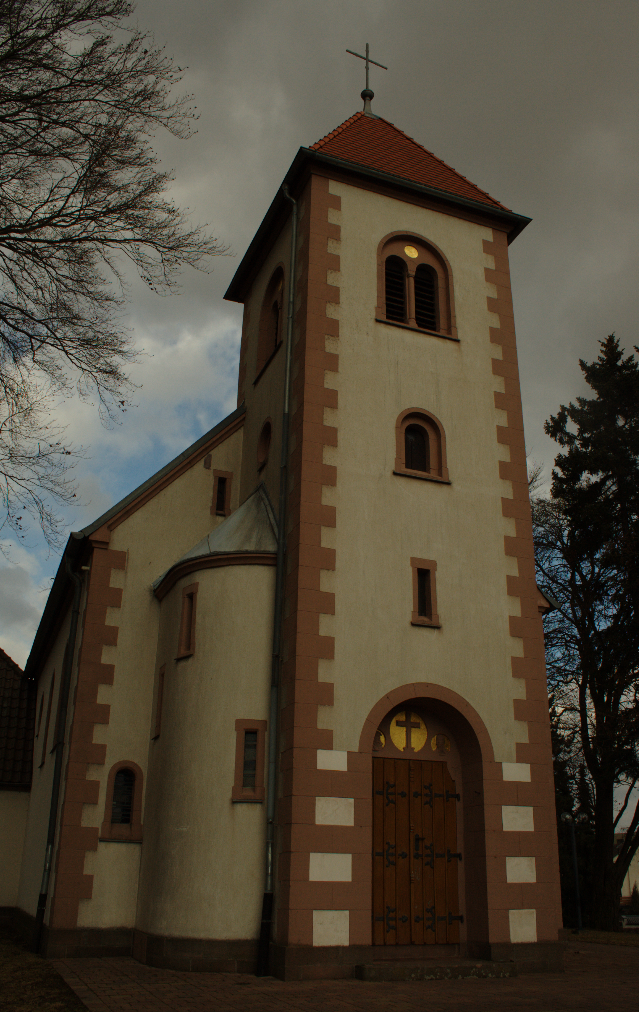 Grossenlueder Hessen Protestant Church